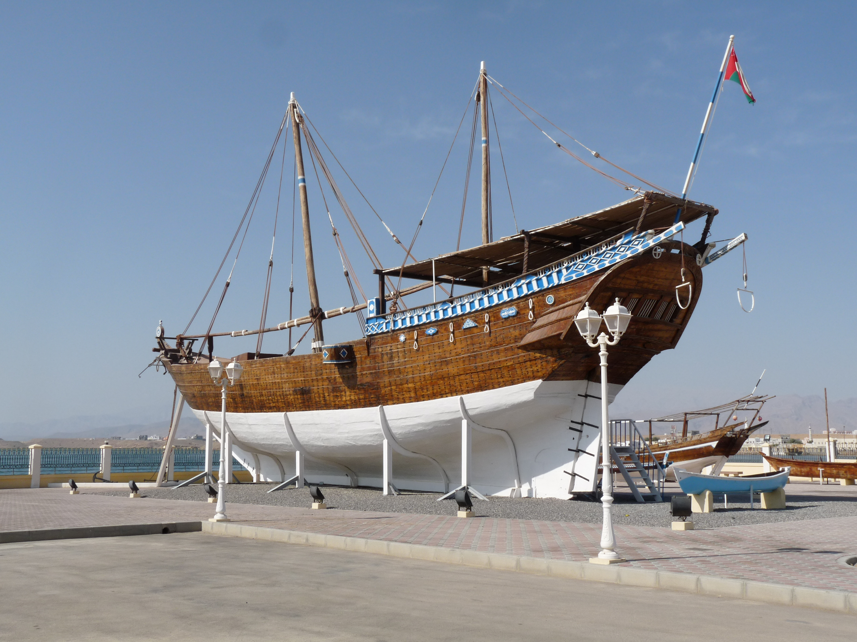 Dhow in Sur (Oman)